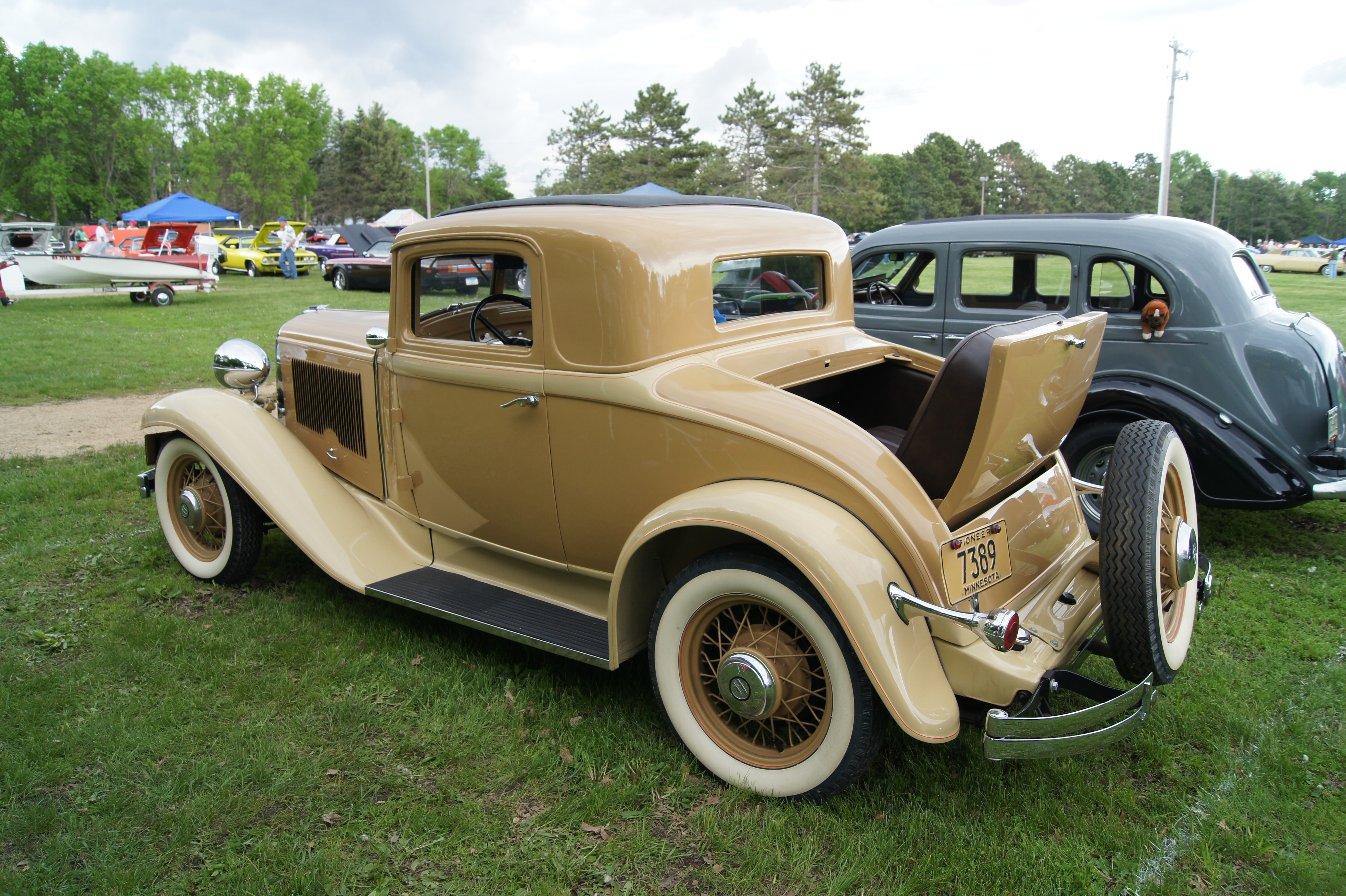 29th Annual Midwest Mopars in the Park Car Show & Swap Meet June 1-2, 2013 Dakota County Fairgrounds Farmington, MN Thousands of car pictures at the link below